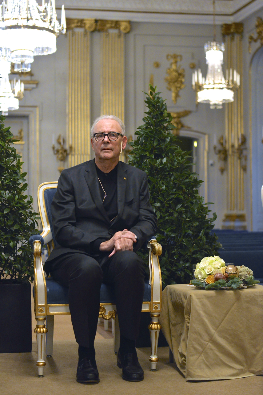 Patrick Modiano in Börshuset in Stockholm during the Swedish Academy's press conference on 6 December 2014.